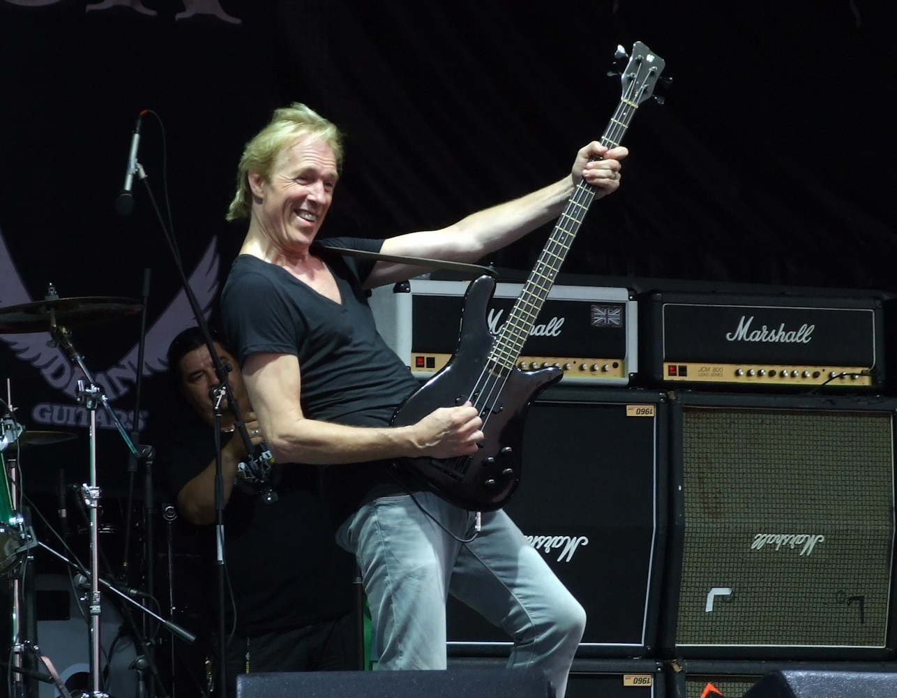 The German bassist Francis Buchholz performing with Michael Schenker Group (MSG) at Kavarna Rock Fest 2012.